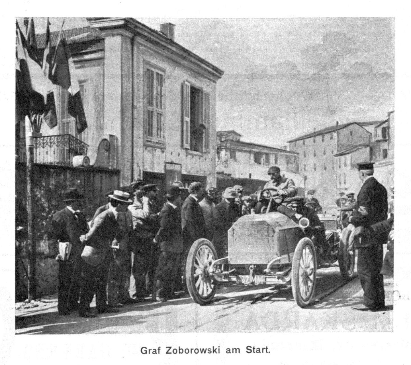 Racing driver Eliot Zborowski (1858-1903) at the start of La Turbie race where he was killed.